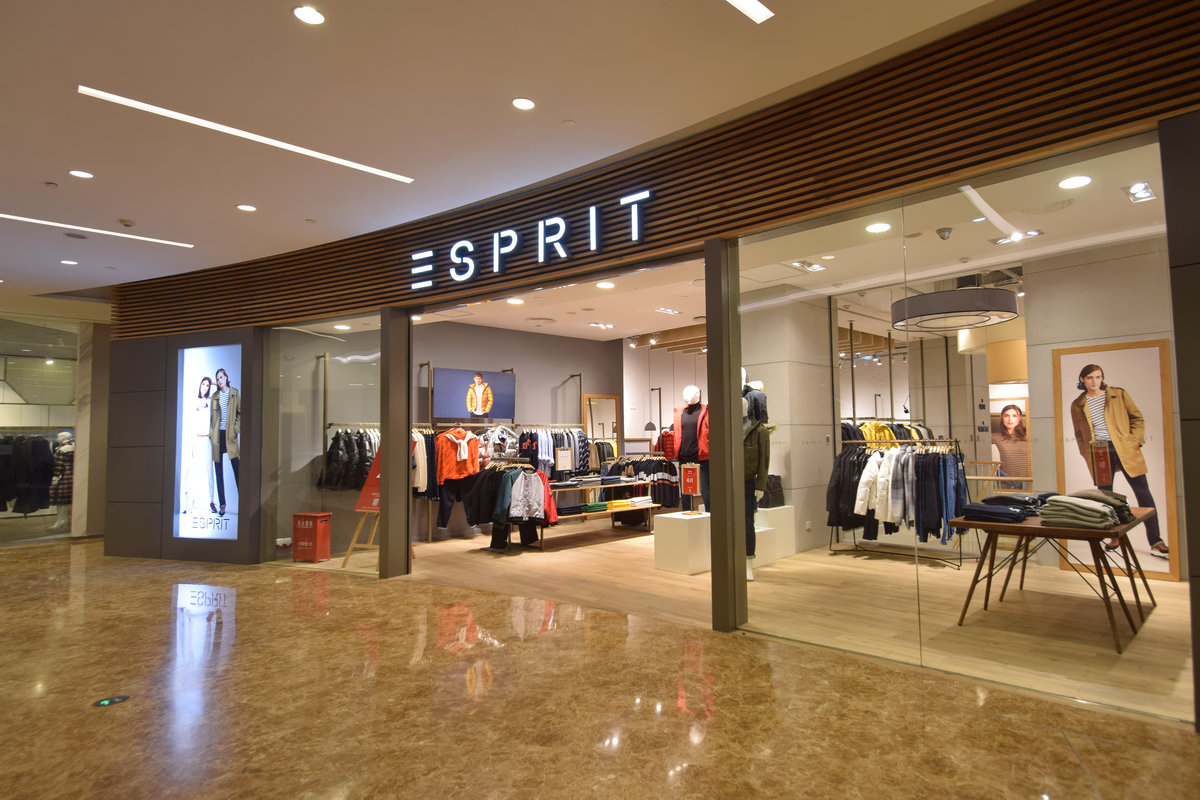 ESPRIT at Raffles City Changning, Shanghai